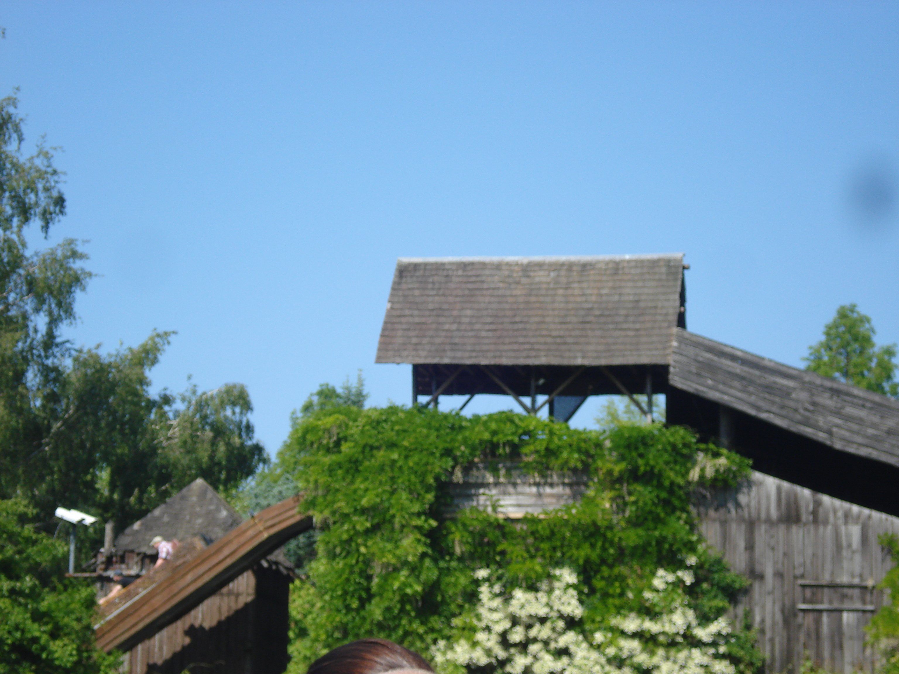 River Splash